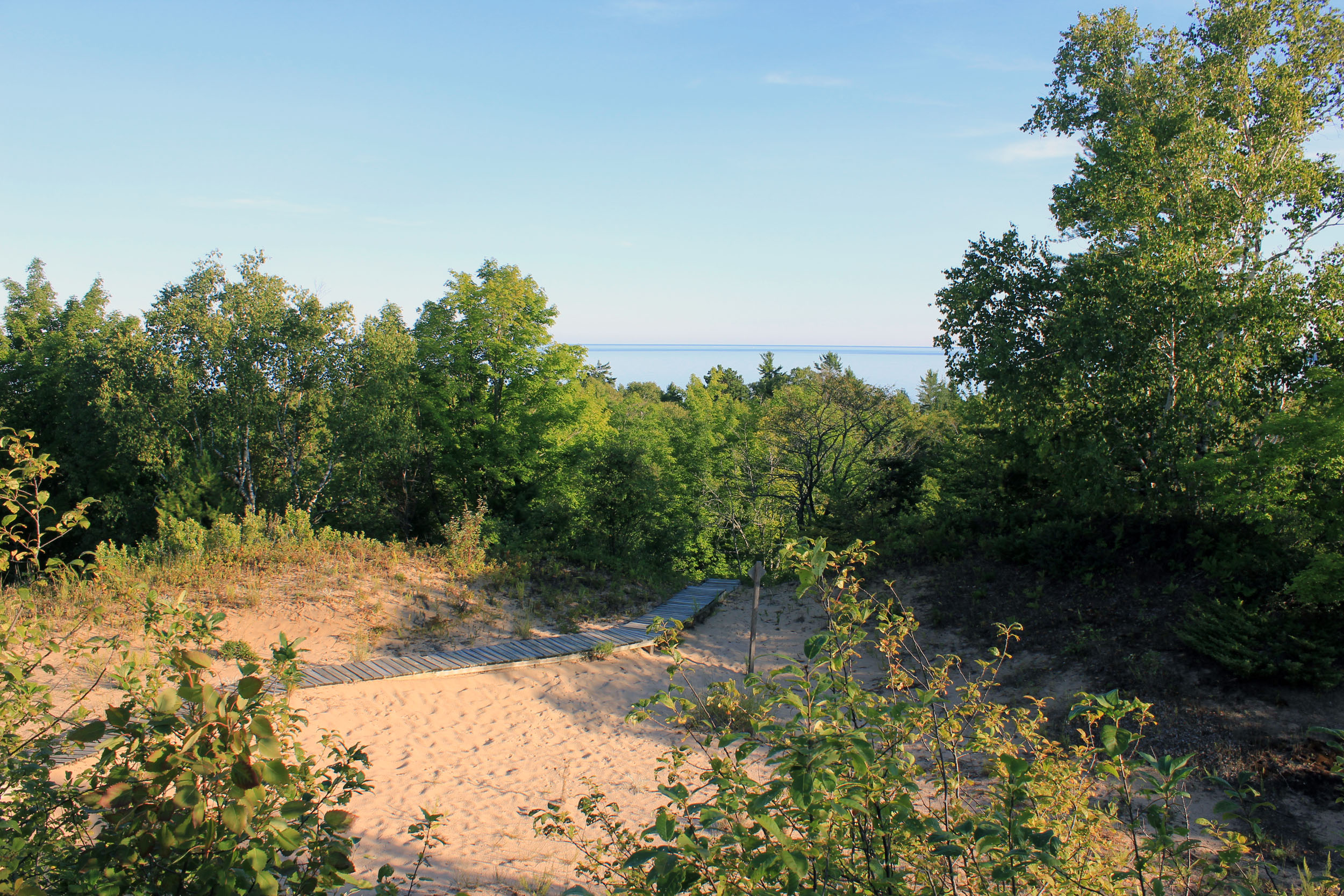 Whitefish Dunes is a 865 acre park that contains the most signifcant dunes on the West Shore of lake Michigan. There is a observation platform at the top of Old The Sand and plants at the top of the dune